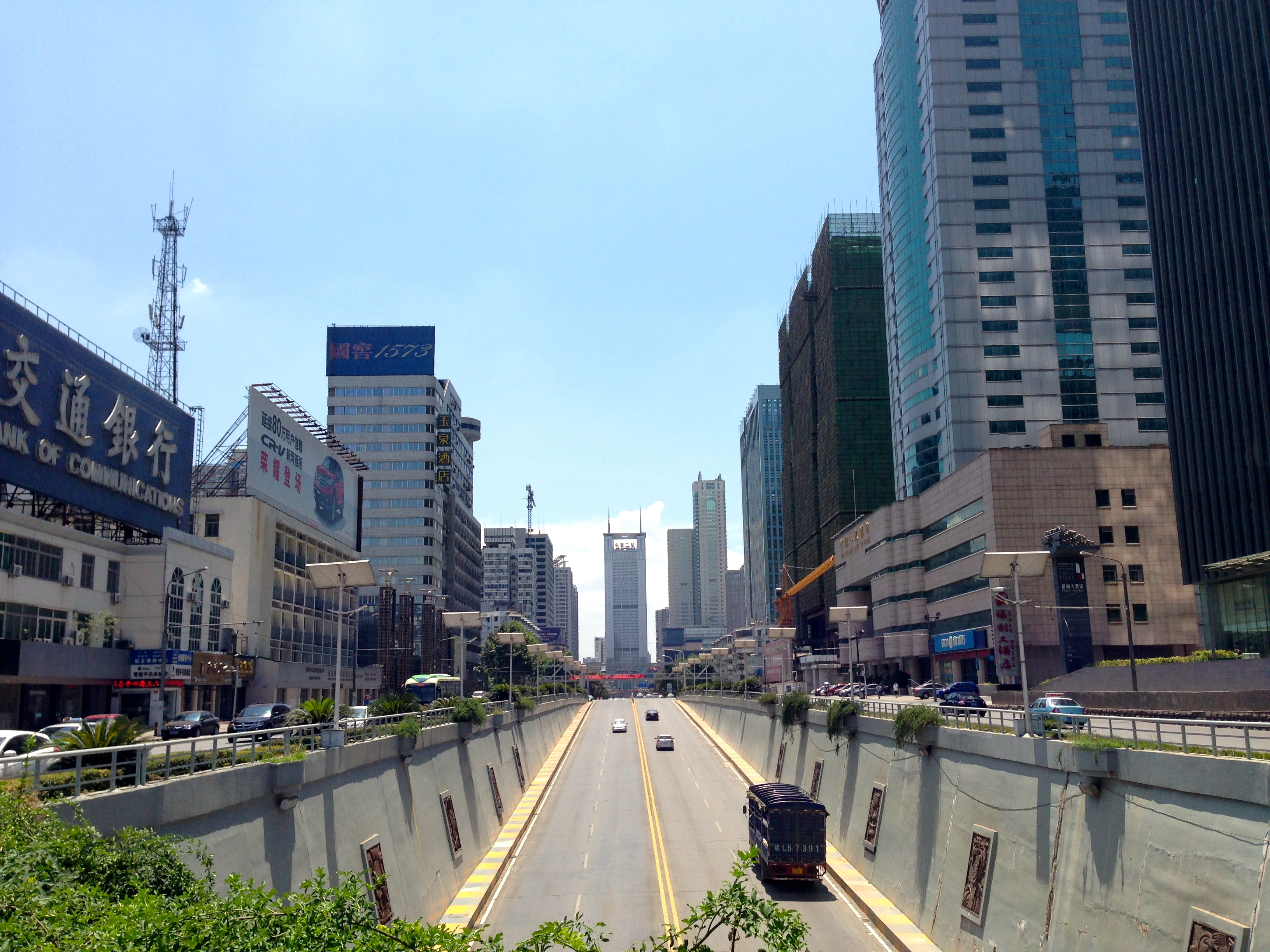 Zhongnan Road, Wuchang, Wuhan, P.R.China